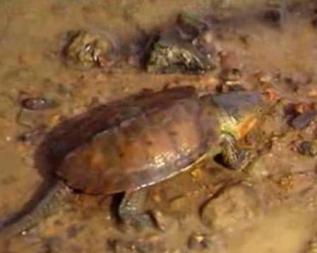 Platysternon megalocephalum